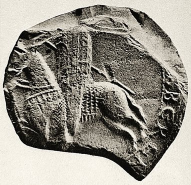 Seal of the count of Barcelona Ramon Berenguer IV (1113-1162)